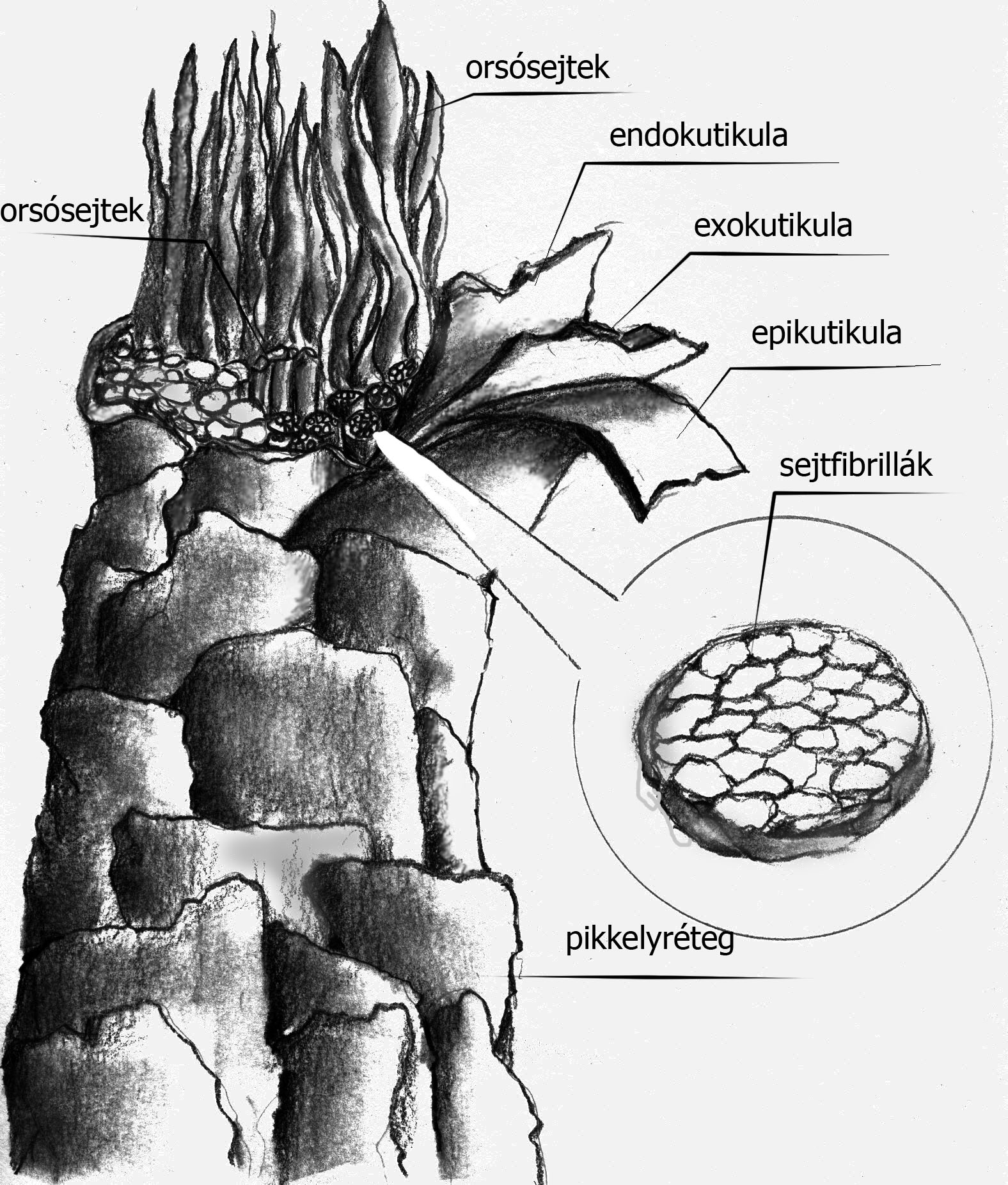 Schematic picture of wool fibre structure